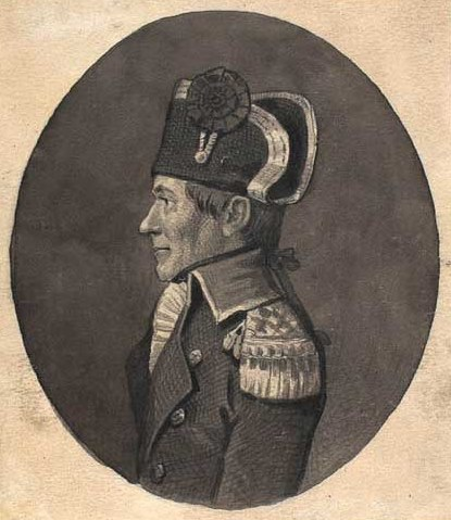 Hans Holsten (1758-1849), Danish Baron and Admiral